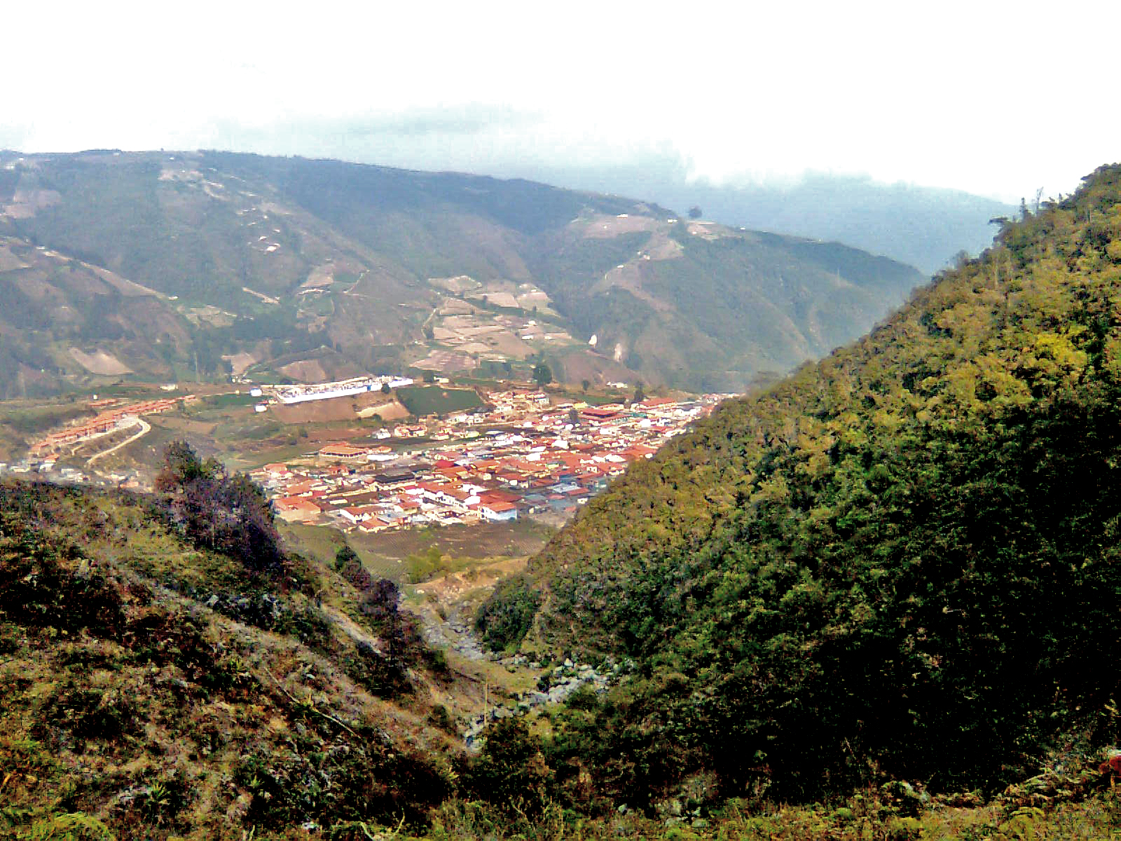 Pueblo Llano